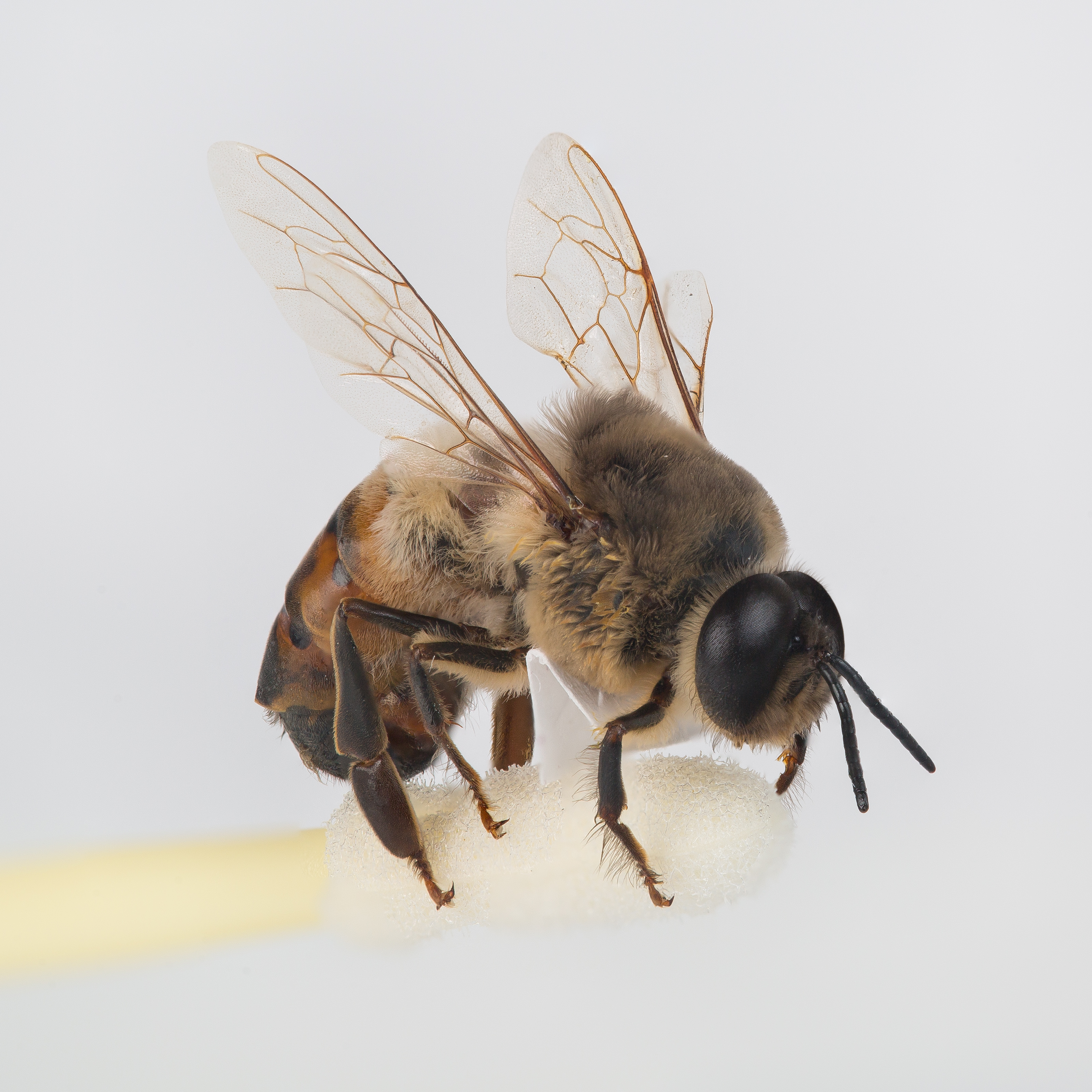 32-image macro stack of a dead drone bee. Bee was killed by placing in a plastic container in the freezer for 20 minutes. For future reference, I recommend a different procedure, such as preserving the bee in 90% ethanol for transportation to avoid bee shitting on itself. Using a sticky insect trap might be a useful technique to fix the position of the legs (great care and about 30 minutes of work was required to position this bee). Photos were taken at f/8 with a Canon 5D mark III and an EF 100mm f/2.8L IS macro lens. Two speedlights with umbrellas and diffusers at full power were used to increase light exposure.